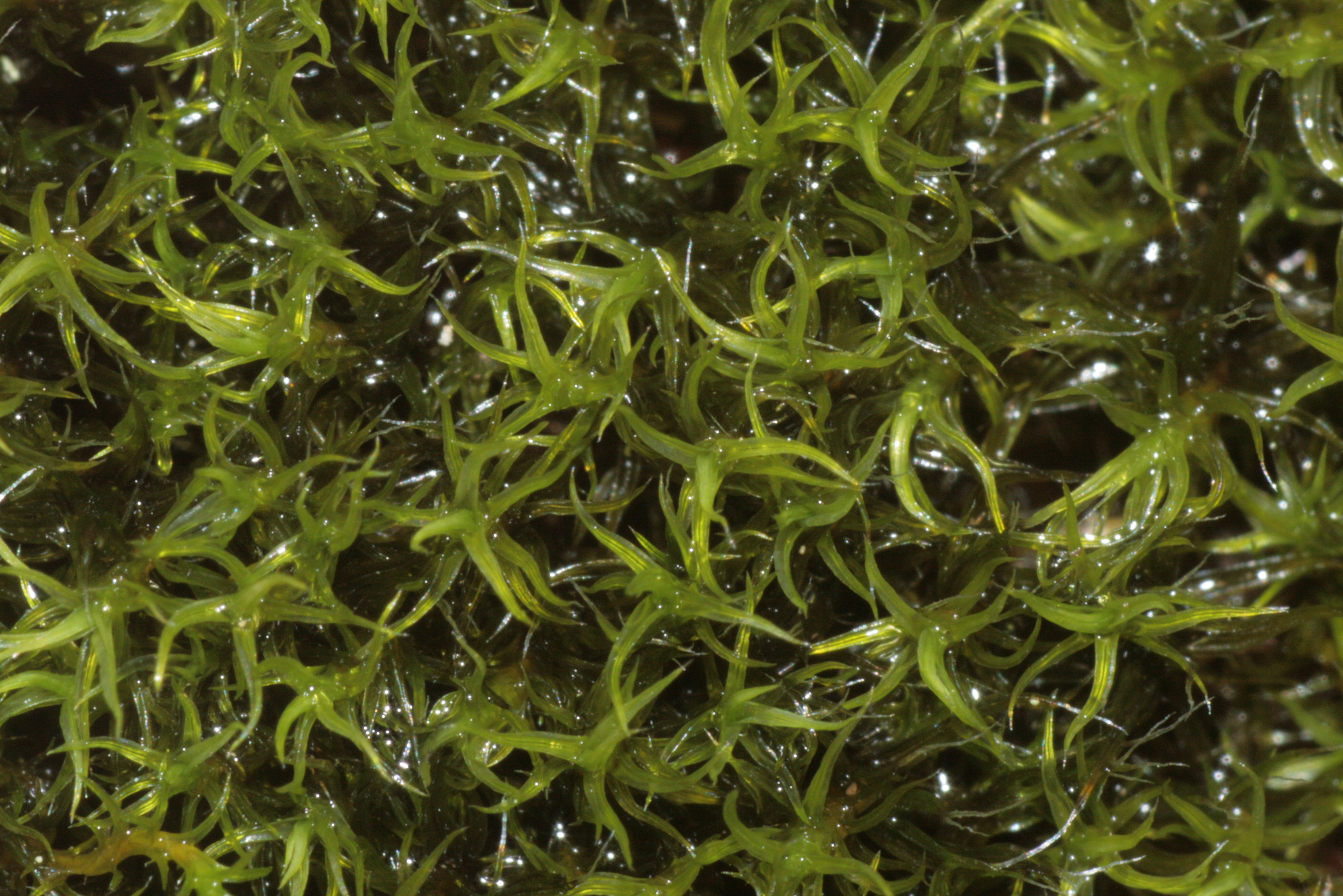 Grimmia trichophylla